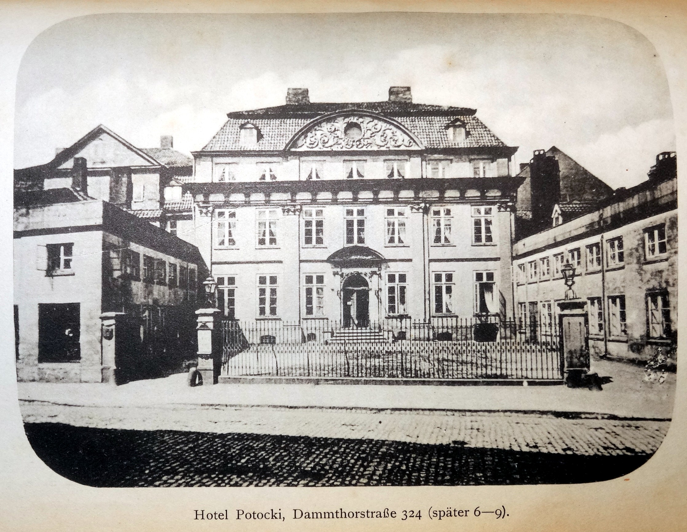 "Hotel Potocka", Hamburg, Germany, demolished in 1867. Build in 1783/1784 as a private mansion by Count Stanisław Szczęsny Feliks Potocki in exile it was quickly used as a noble coffehouse after his departure in 1785.